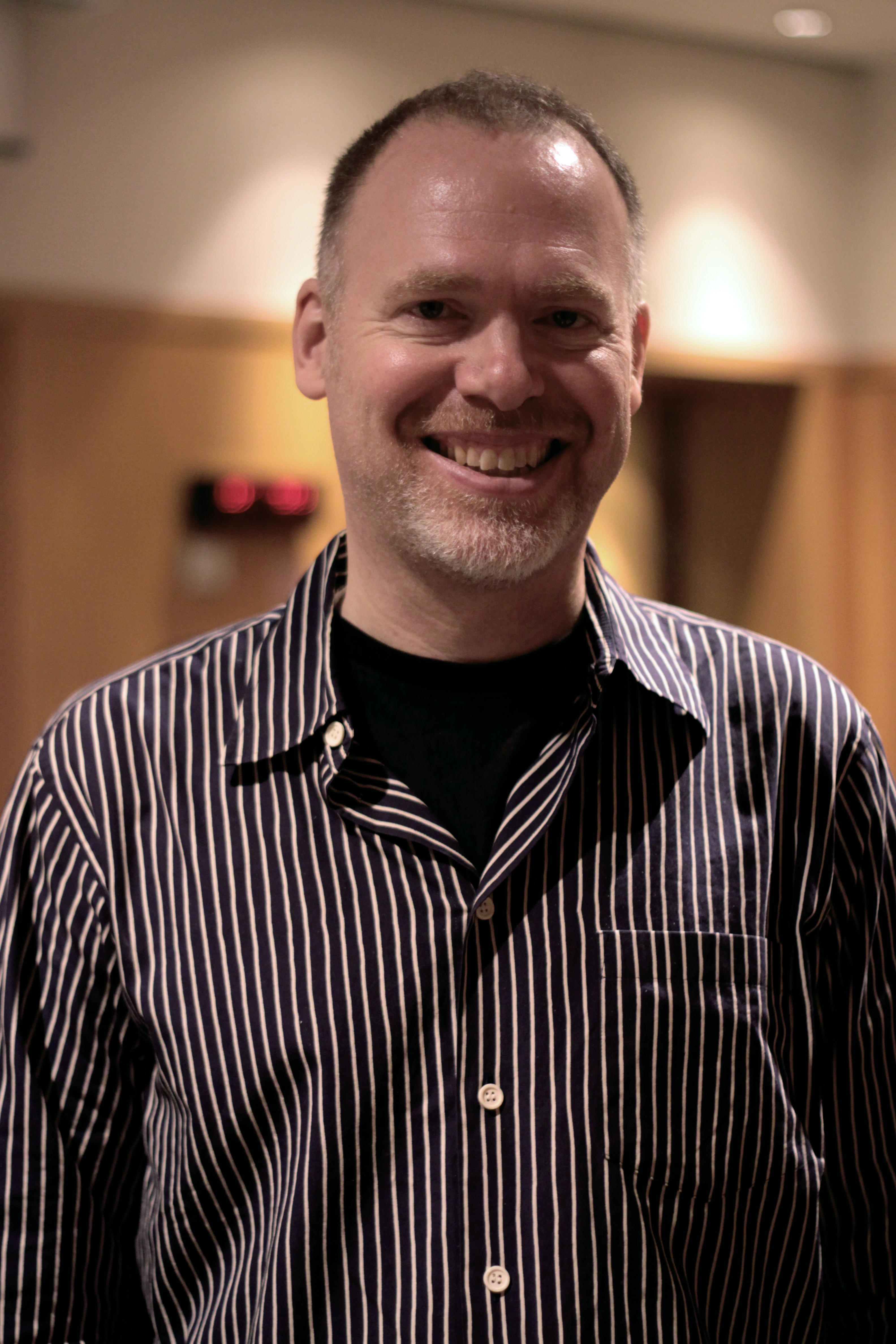 Author Scott Westerfeld at Utopiales 2010 (France).